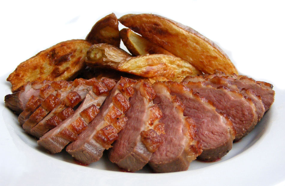 Duck breast smoked for about 10 minutes on woodchips and black tea, then panfried. Potatoes in the background.